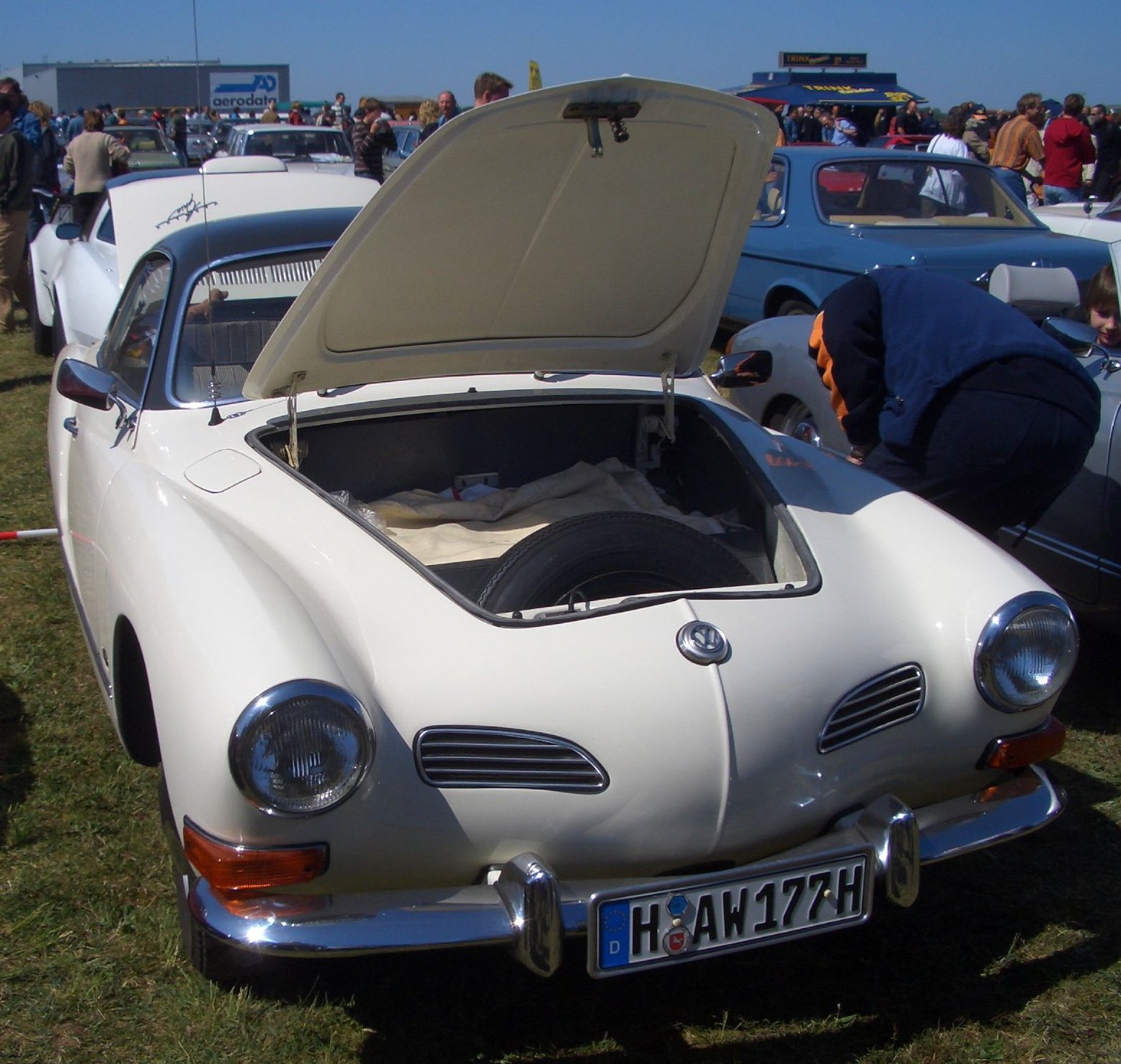 VW Karmann-Ghia (Typ 14) opened boot